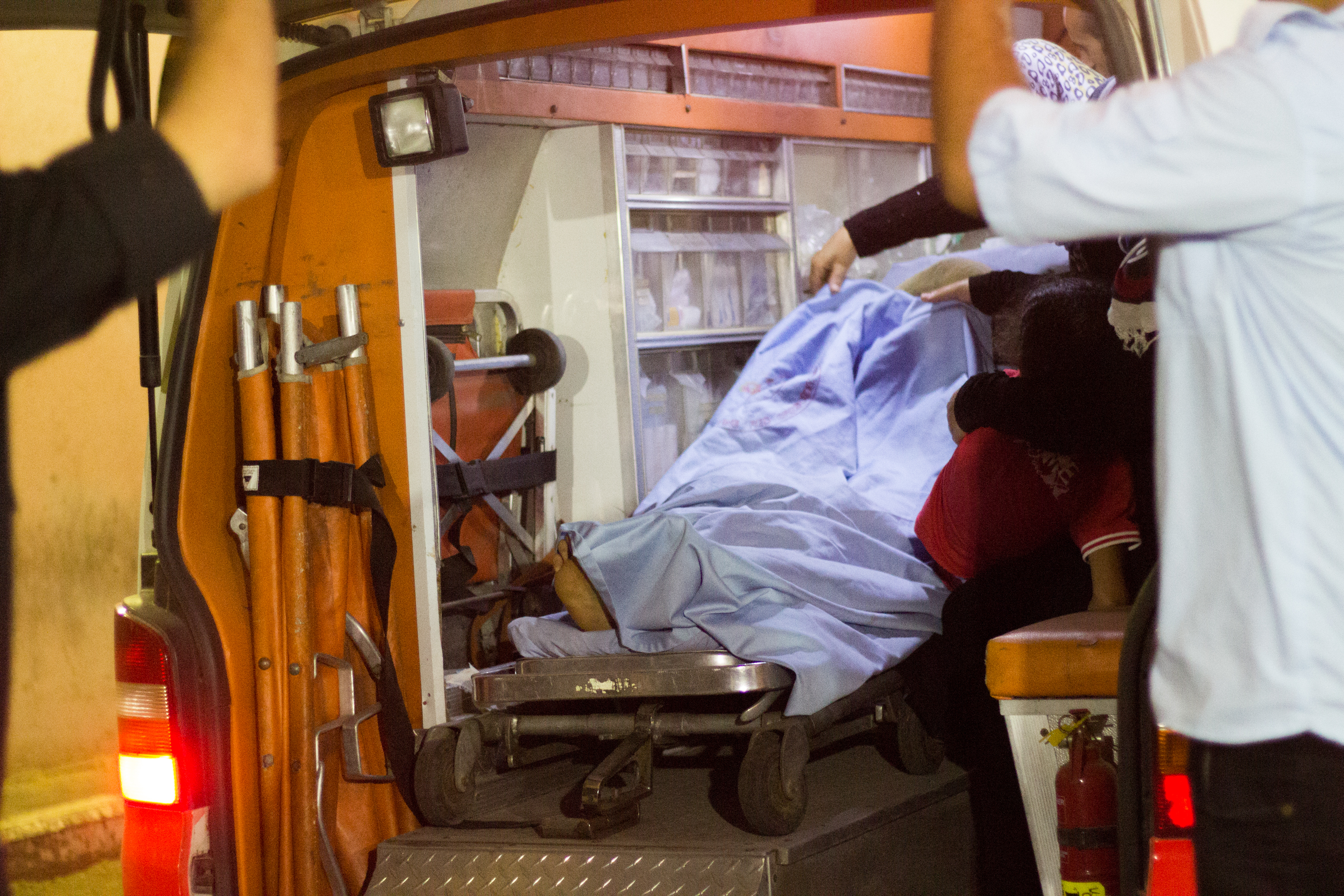 A woman reached Al Shefaa hospital with a serious health condition because of Israeli Air Forces bombing over their house in Beit Hanoun. 782014